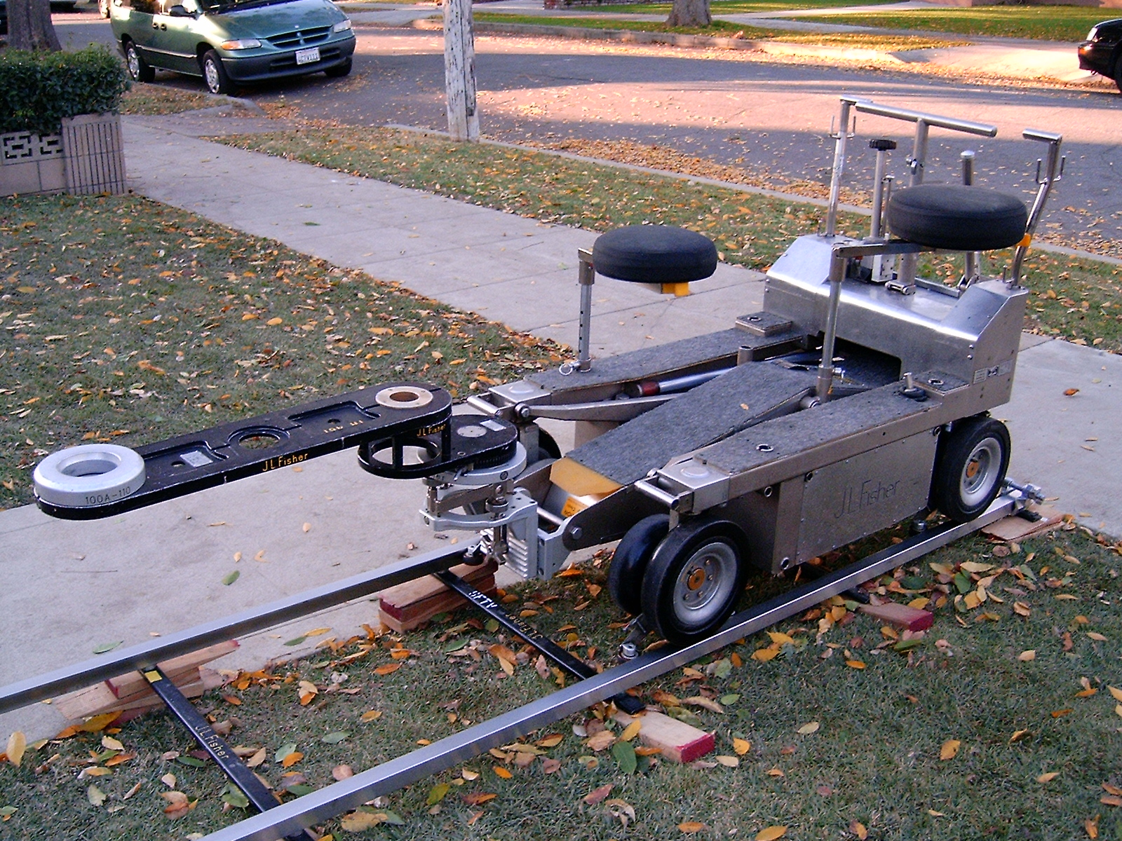 J.L. Fisher "Model 10" camera dolly mounted on track, with two extenders attatched to the level head.